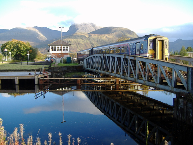 Train crossing bridge at Banavie This is just past the series of locks called 'Neptunes Staircase'.